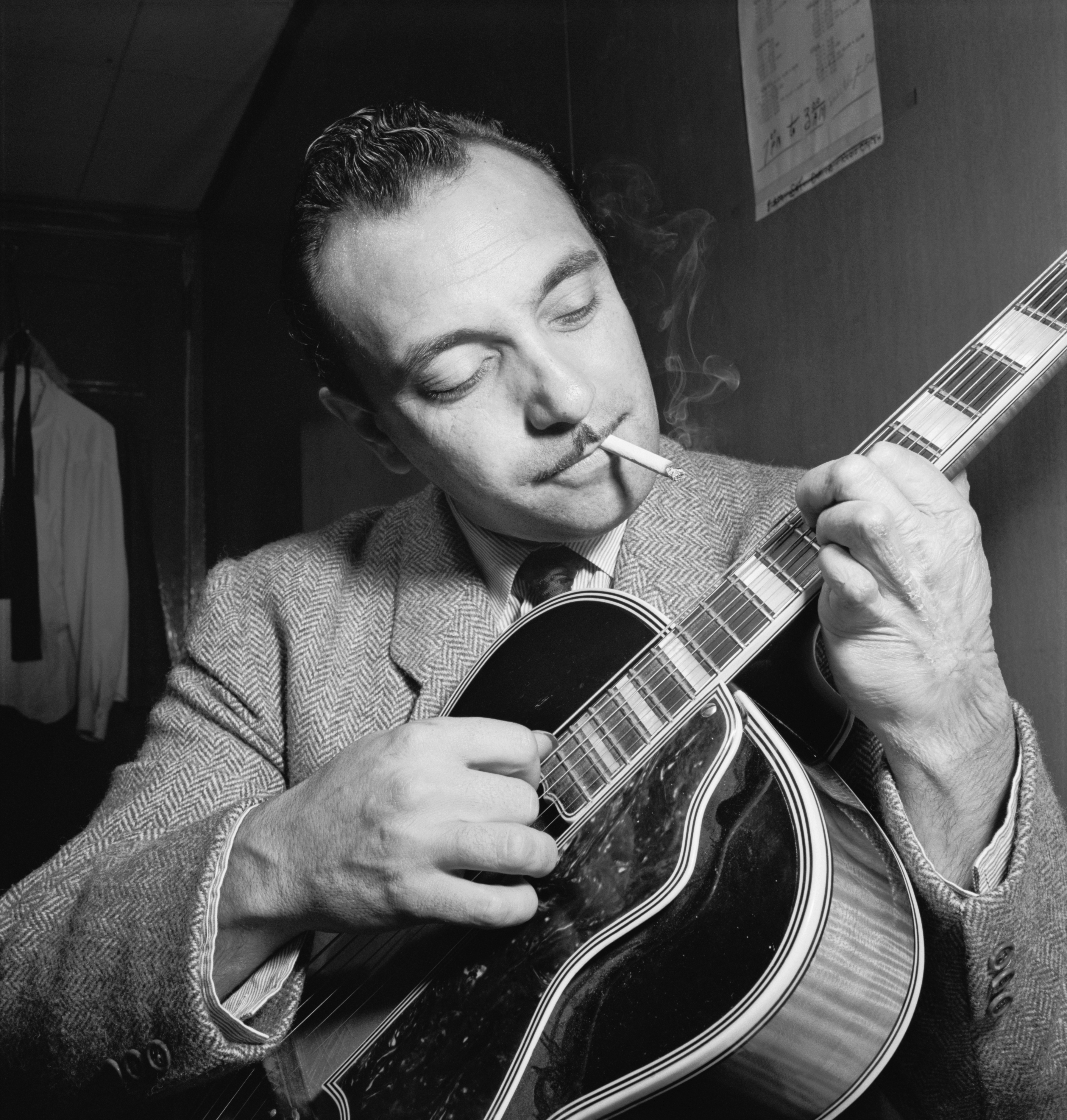 Django Reinhardt at the Aquarium jazz club in New York, NY